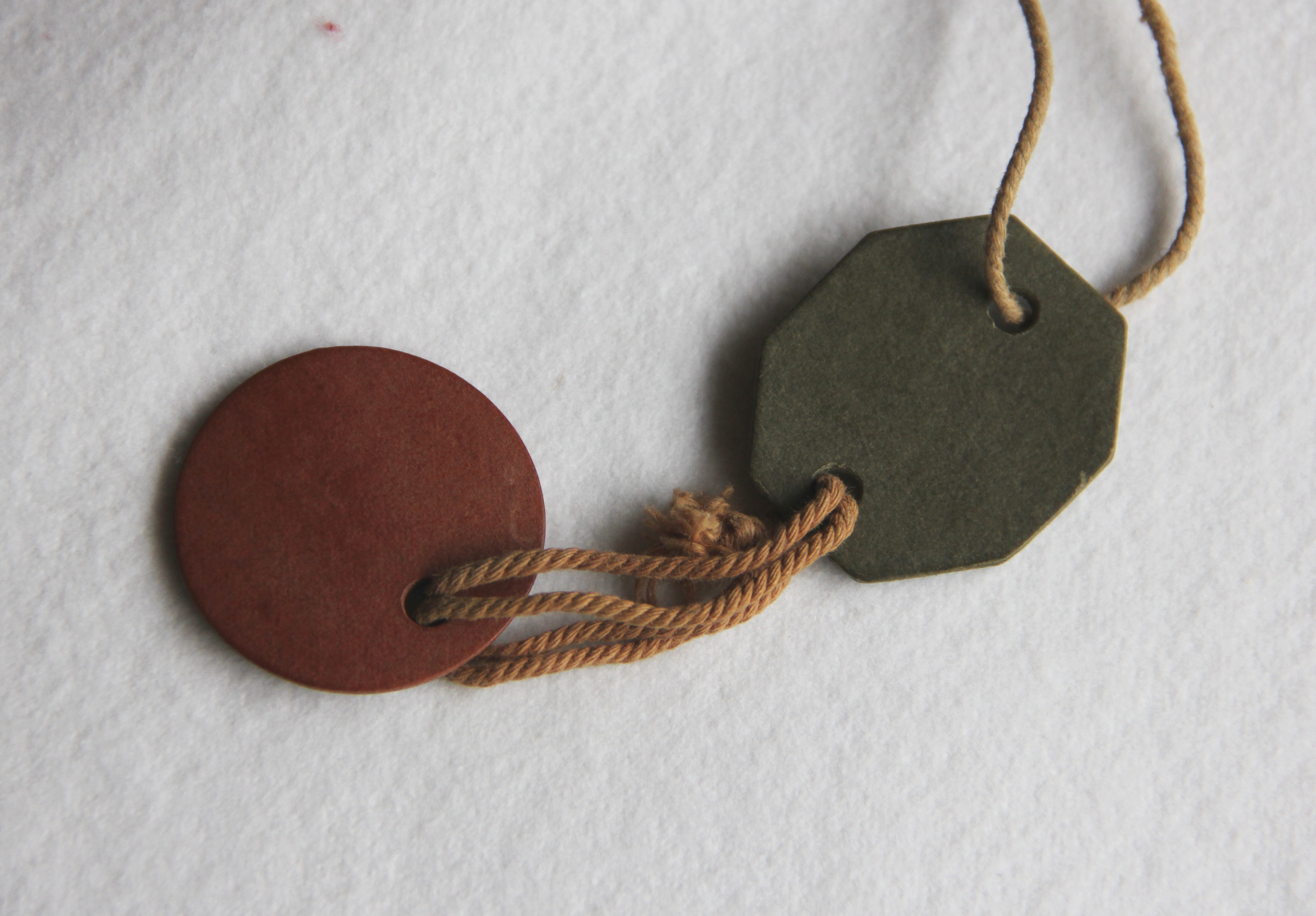 The reverse side of a pair of Second World War era "dog tags" (identity discs). Issued to RAF serviceman somewhere between 1941 and 1945.